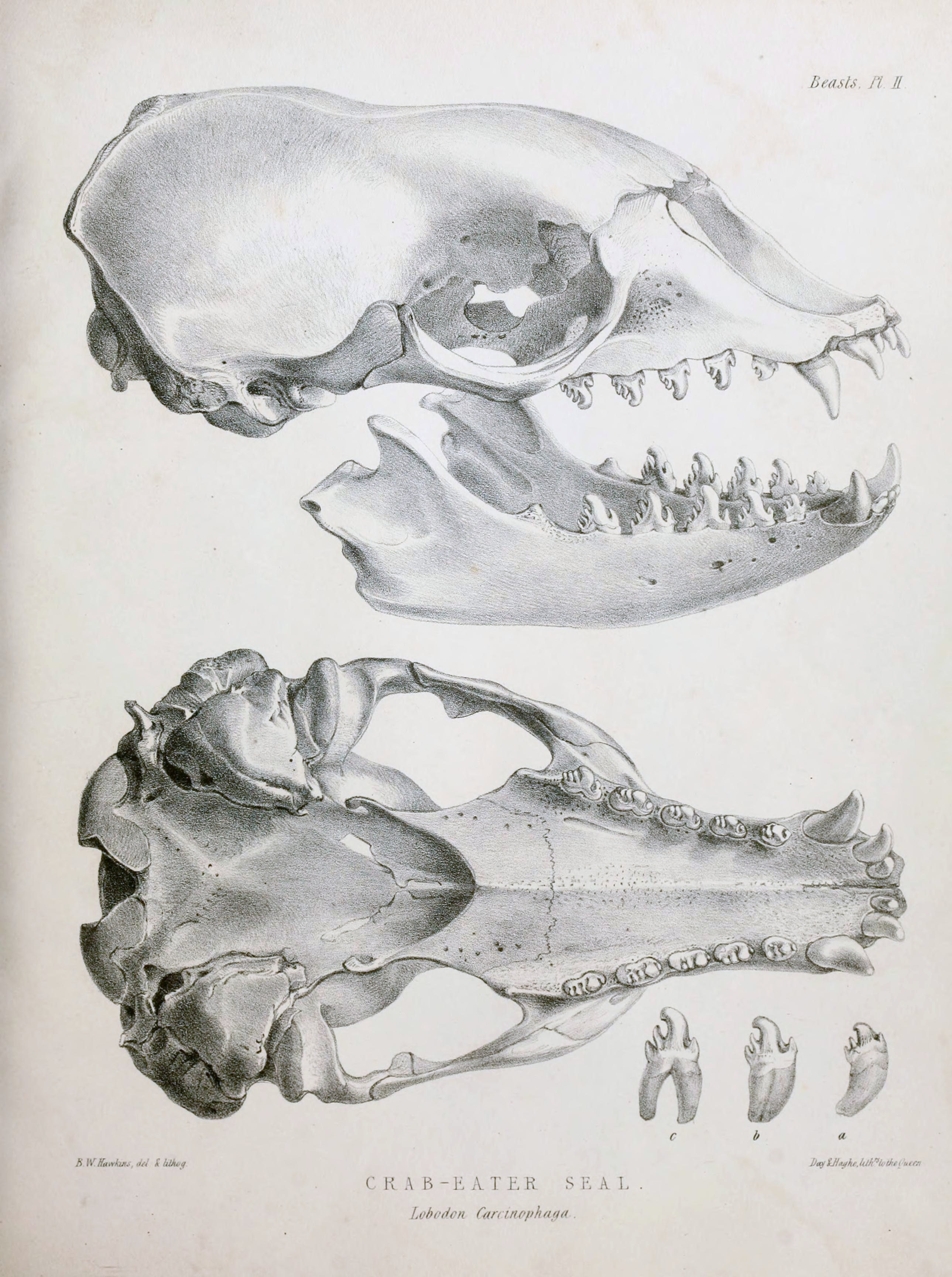 Crabeater Seal's skull (Lobodon carcinophagus) by Benjamin Waterhouse Hawkins